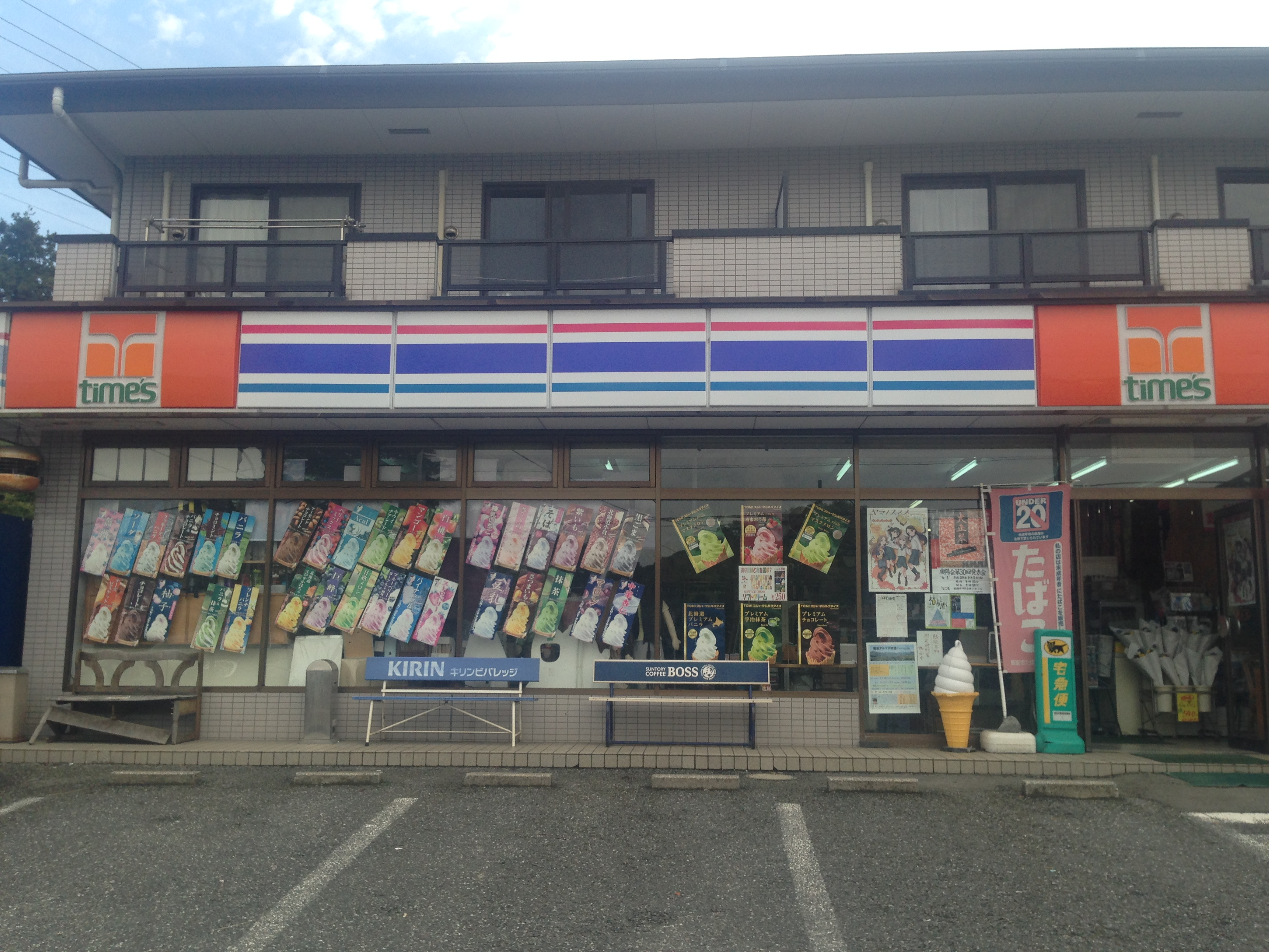 Times mart, Hanno